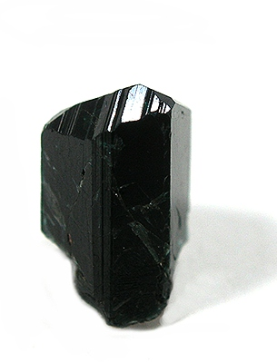 Serendibite Locality: Mogok Township, Pyin-Oo-Lwin District, Mandalay Division, Burma (Myanmar) Dimensions: 1 cm x 0.7 cm x 0.7 cm An important crystallized example of this extremely rare species. An extremely important crystal recently brought out. Confirmatory analysis was done by Dr. George Rossman at Caltech.